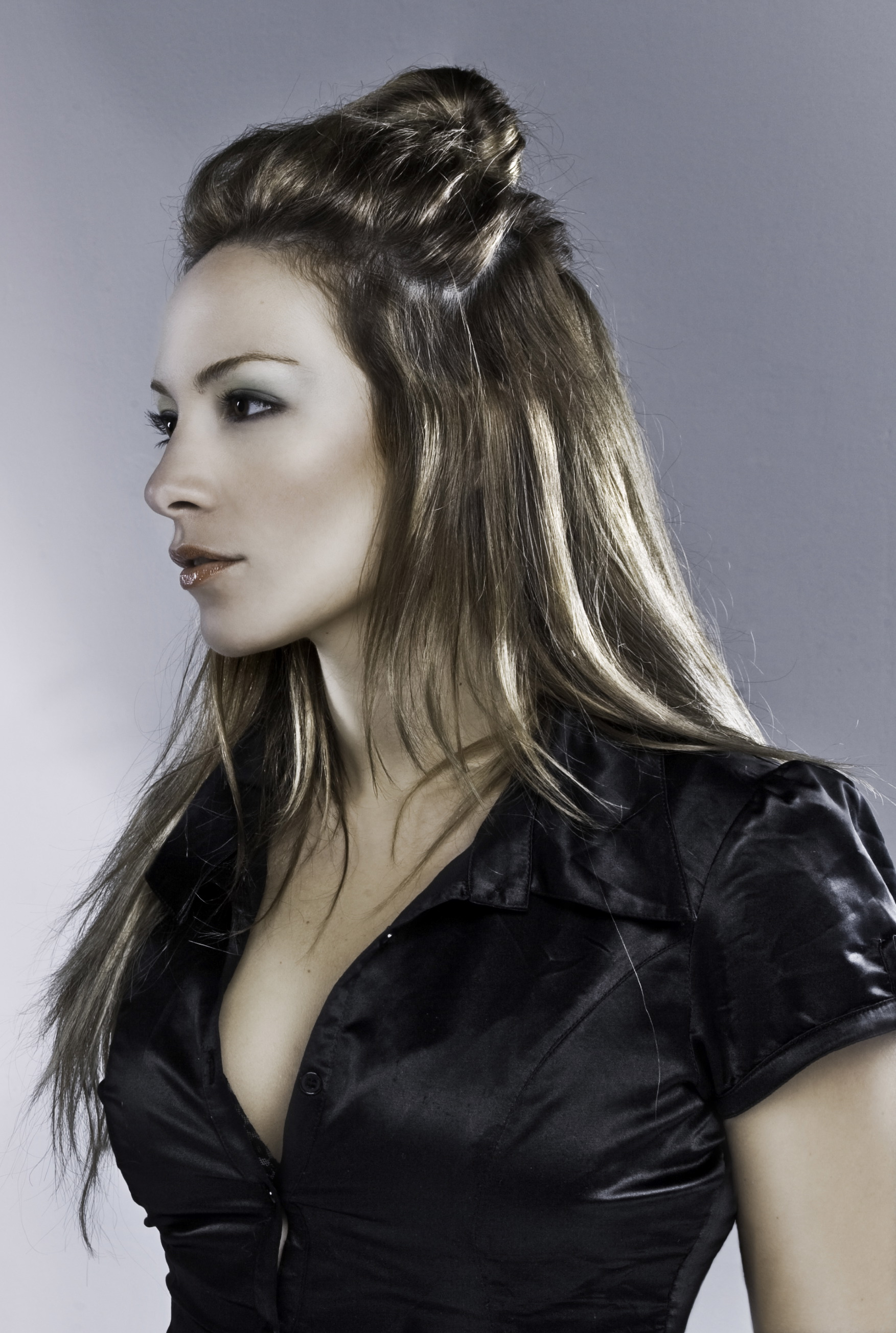 Marcela Thais foto promocional de el grupo "Leche"